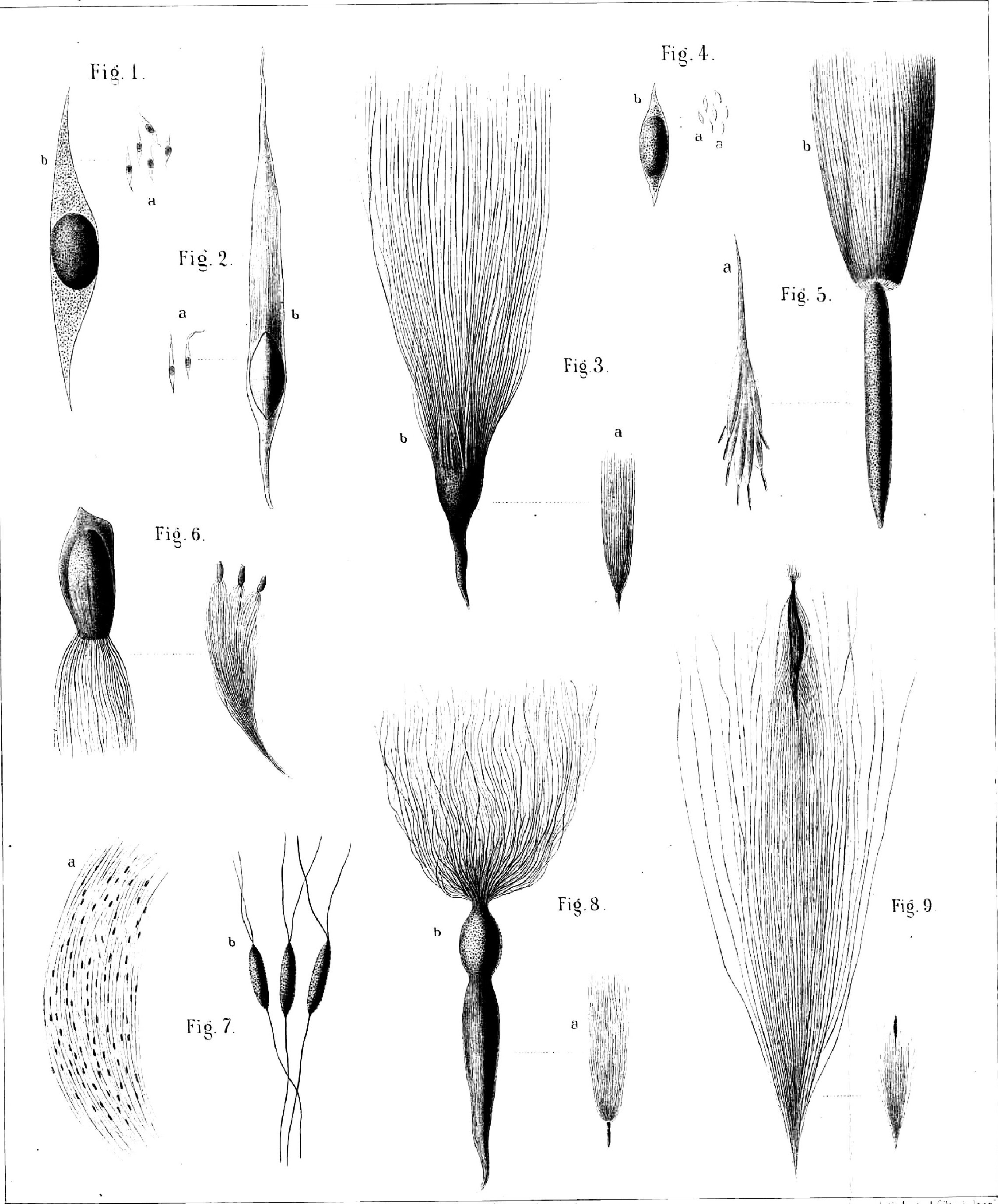 Epiphyte seeds. Caption: 1. Hymenopogon brasiliensis. 2. Cosmibuena sp. 3. Hillia sp. aff. brasiliensis. 4. Rhododendron pendulum. 5. Dischidia imbricata. 6. Dischidia Rafflesiana. 7. Aeschynanthus leucalatus var. sikkimensis. 8. Catopsis sp.? (Blumenau). 9. Tillandsia vestita. Pic. 2 from book